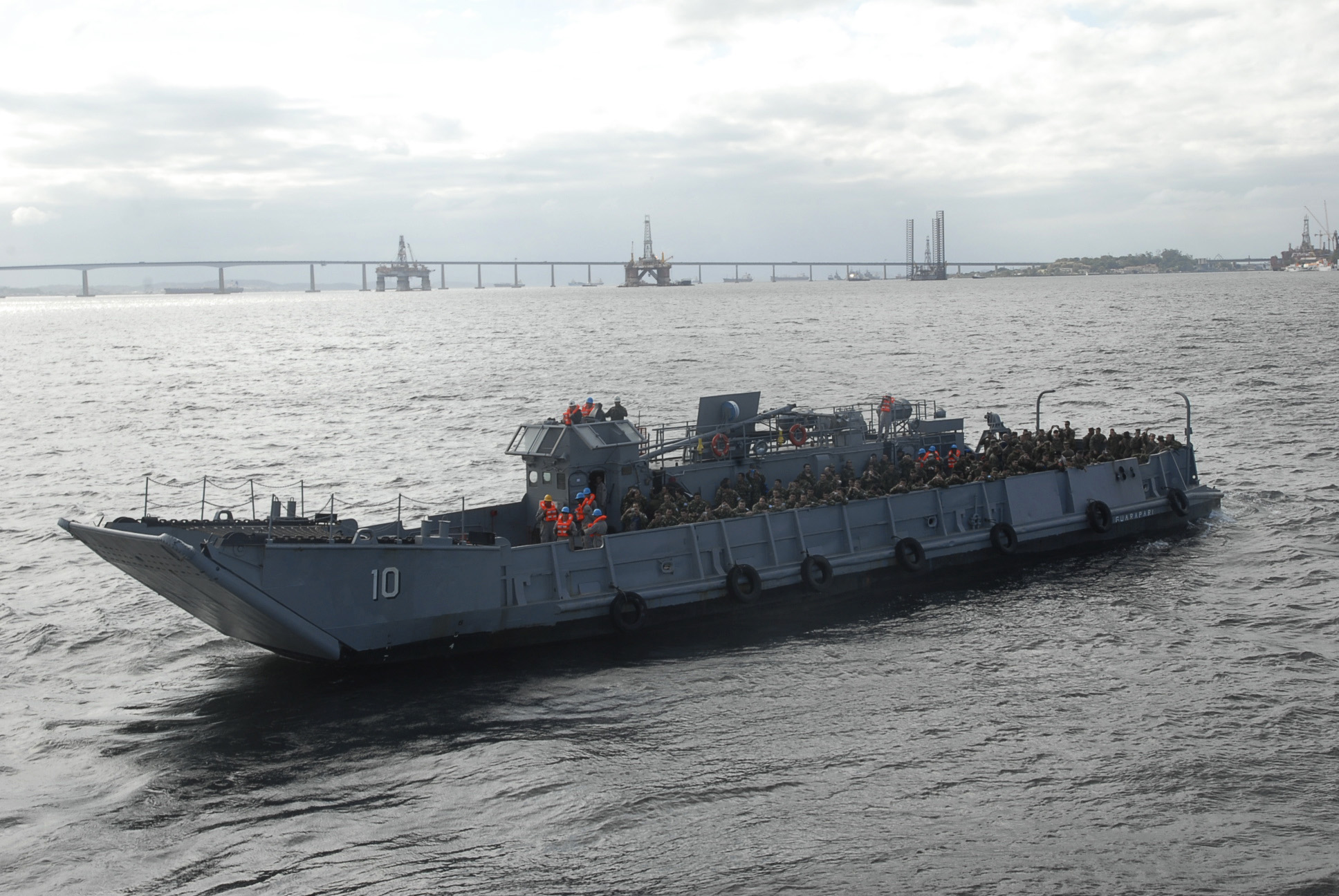 090712-A-8397T-004 RIO DE JANEIRO, Brazil (July 12, 2009) Brazilian LCU 10 transports Marines from the U.S. 2nd Marine Expeditionary Forces (2nd MEF), and marines from Uruguay and Argentina heading to Governor's Island, Rio De Janeiro, Brazil to participate in the U.S. Marine Corps Forces South multinational amphibious exercise Southern Exchange 2009.